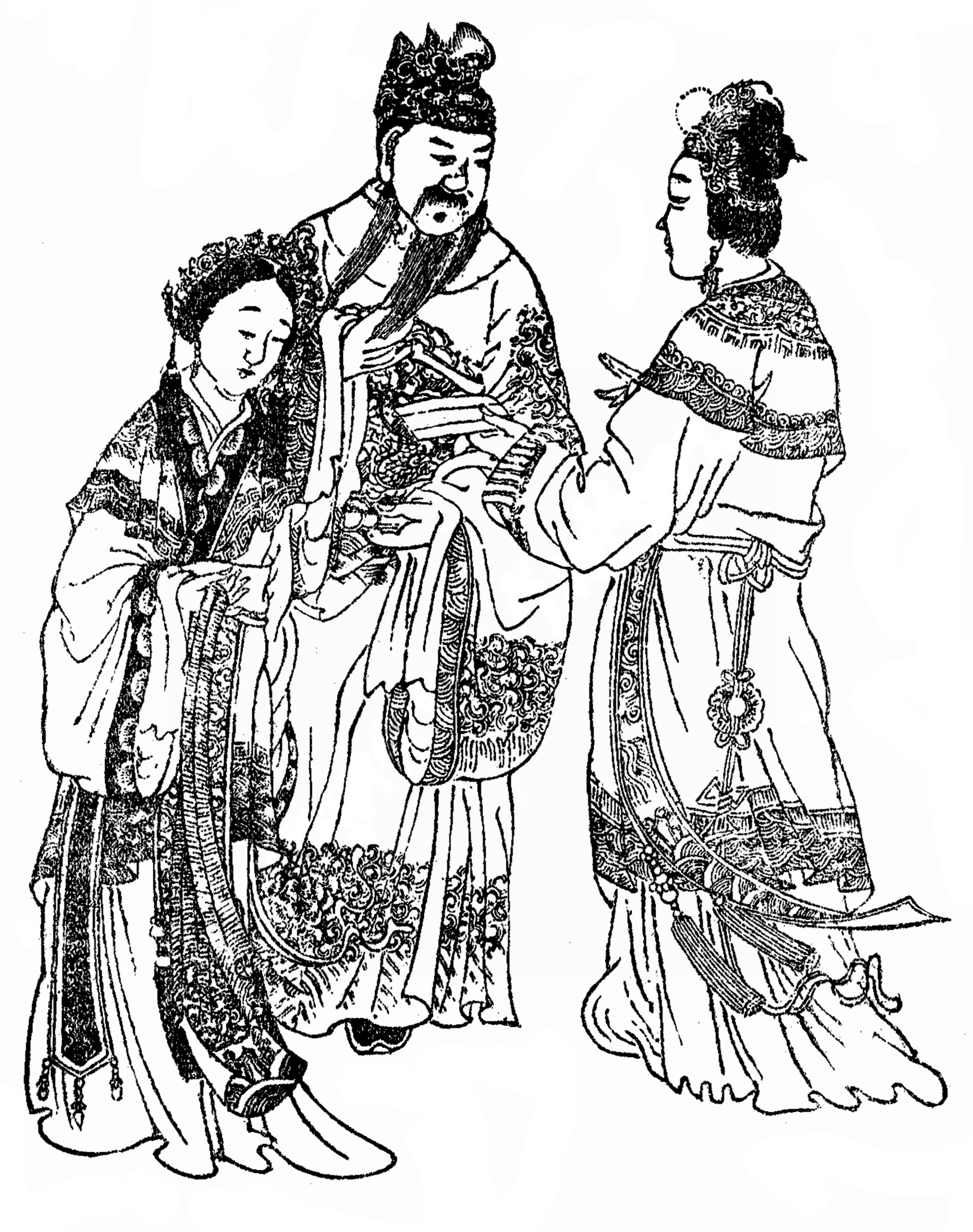 A picture drawn up during the Qing Dynasty era, depicting the characters in Romance of the Three Kingdoms (from left to right): Consort Dǒng (董氏), Emperor Xiàn (獻帝), and Empress Fú Shòu (伏寿). See further information on Thai Wikisource's Chronicle of the Romance of the Three Kingdoms by Prince Damrong Rajanubhab.